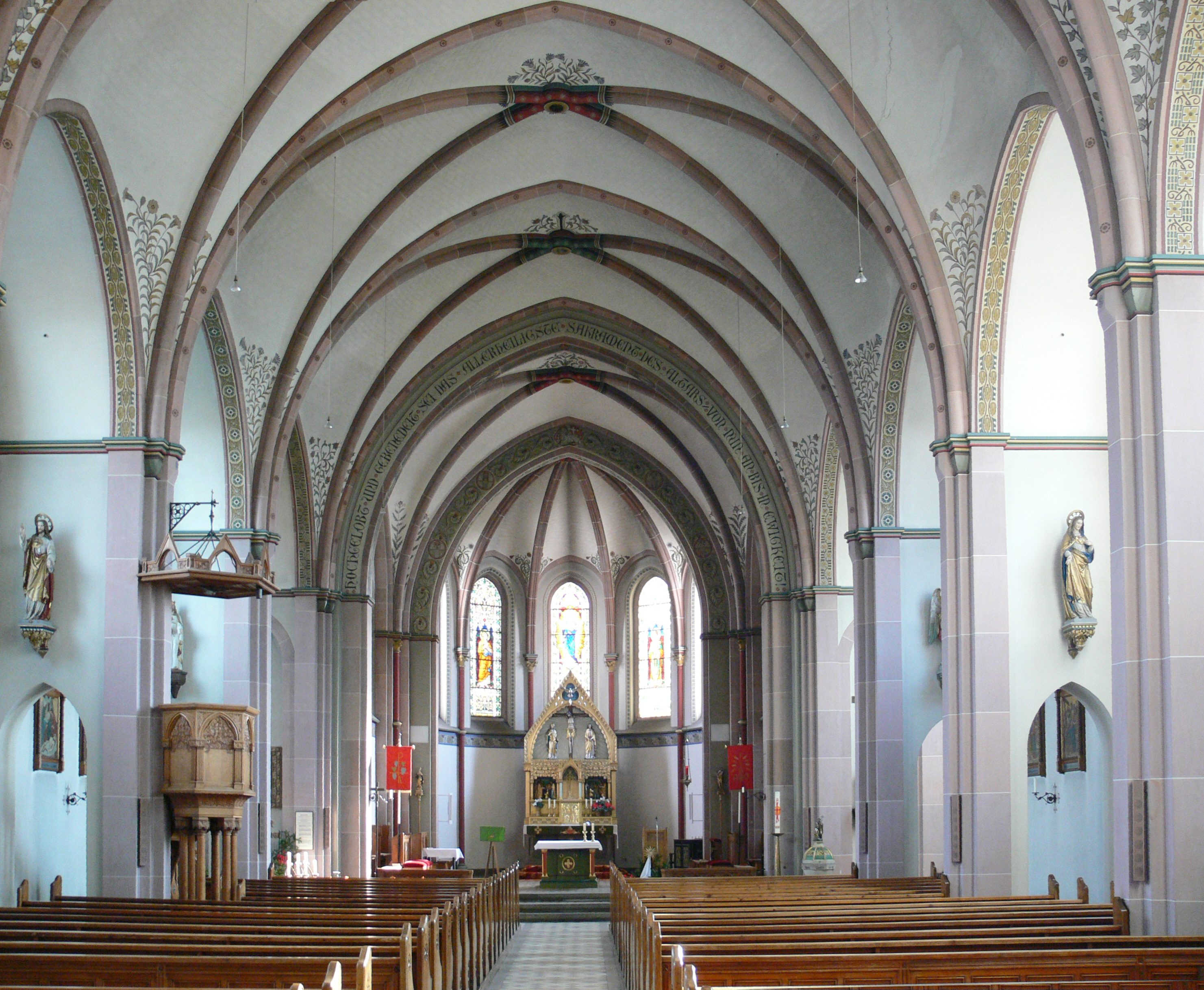 Wolpertswende: Mochenwangen, Pfarrkirche Mariä Geburt, Innenansicht, Architekt: Joseph Cades Joseph Cades (1855–1943) DescriptionGerman architectDate of birth/death15 September 185531 May 1943Location of birth/death(Schemmerhofen-)AltheimStuttgartWork locationStuttgartAuthority control : Q1706718 VIAF: 8242279 ULAN: 500229166 GND: 12142734X